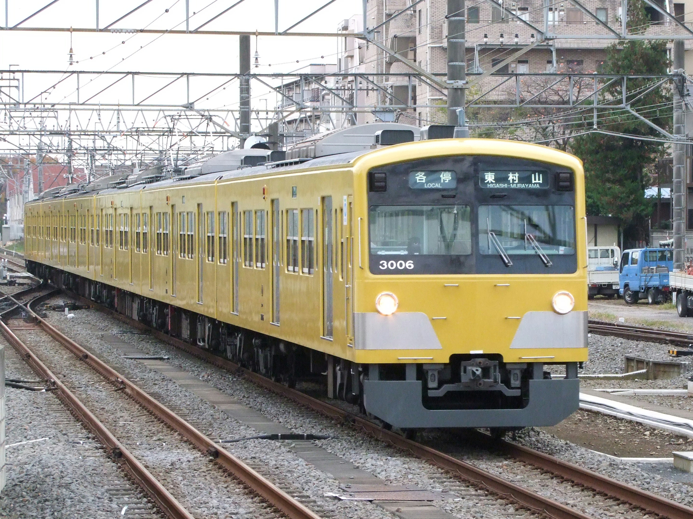 Seibu 3000 series 6-car EMU set 3005 approaching Ogawa Station on the Seibu Kokubunji Line in Tokyo